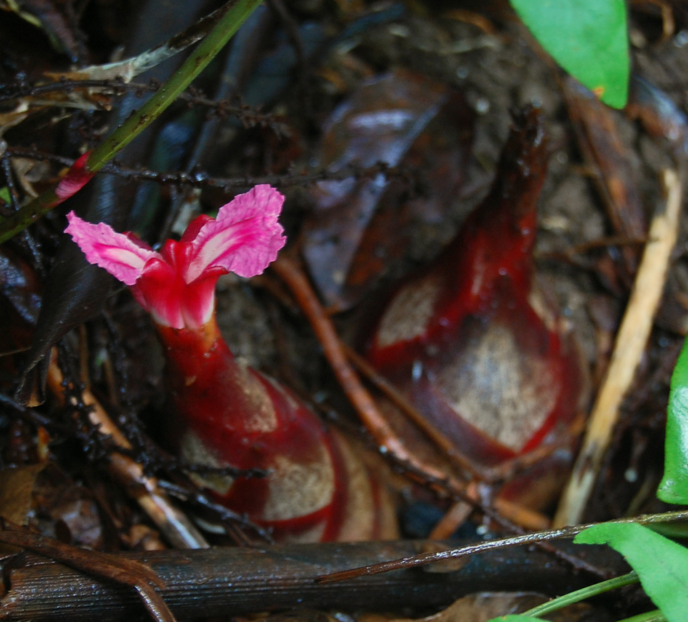 Inflorescence of Hornstedtia alliacea, showing pinkish labellae protruding from. Sukabumi, West Java.